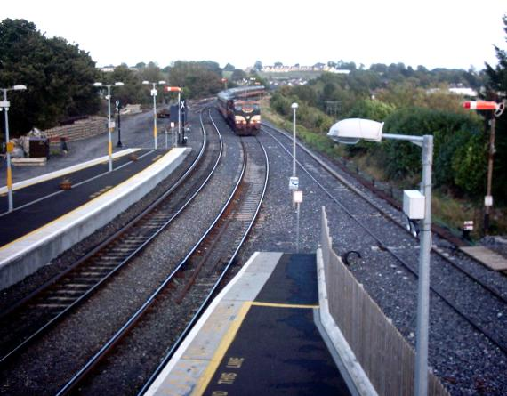 Mullingar railway station. Like anyone equiped with photographic equipment, and image treatment software, satisfactory resluts are today attainable, by anyone, me in this case: NIT Pickers, Puretins, and otherwise.... Circulate, continue your road, nitpickers abstain